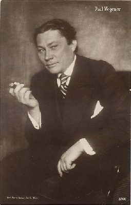 Paul Wegener, 1916 cigarette card